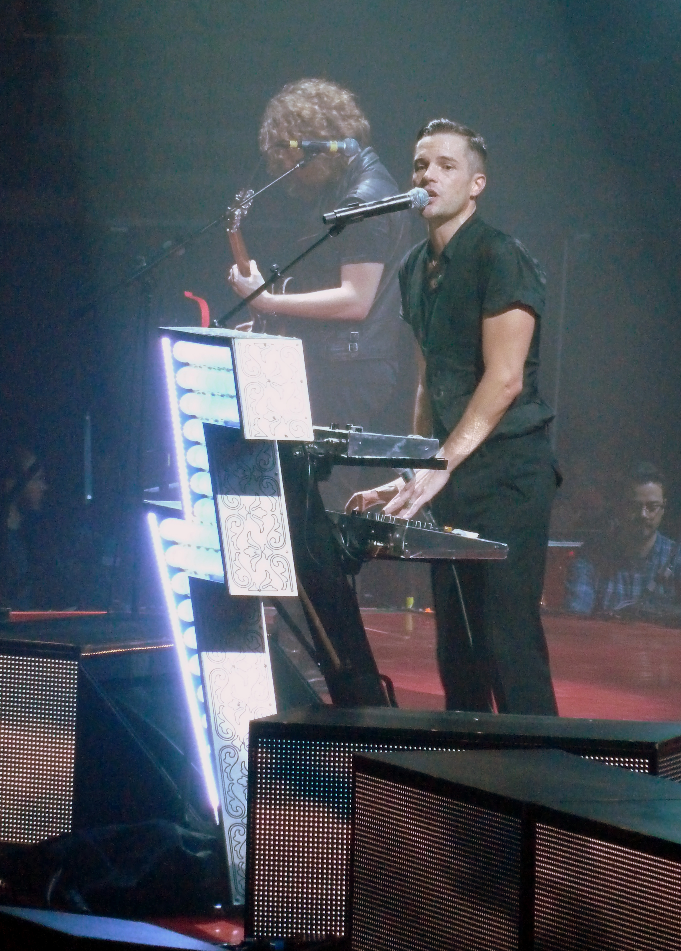 Brandon Flowers of the band The Killers performing at Eastern Michigan University Convocation Center in Ypsilanti near Detroit, Michigan